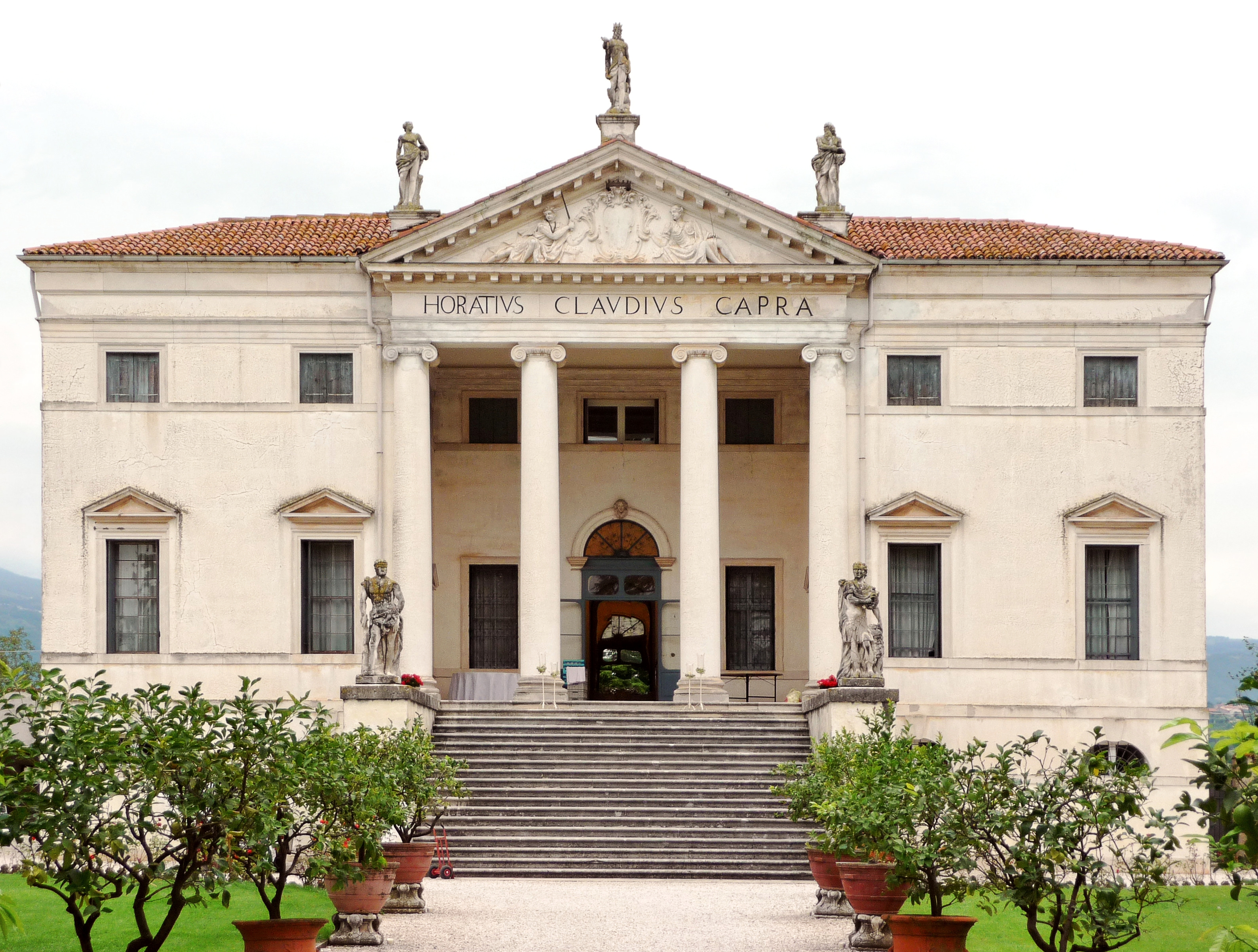 Villa Capra in Sarcedo, province of Vicenza, Italy. Build in 1764 by earl-architect Orazio Capra, it's an example of palladian style.